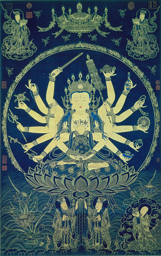 Cundi, an esoteric form of Avalokitasvara. Anonymous, Ming Dynasty (1368-1644). Hanging scroll, gold ink and colors on paper, 126.7 x 81.1 cm.